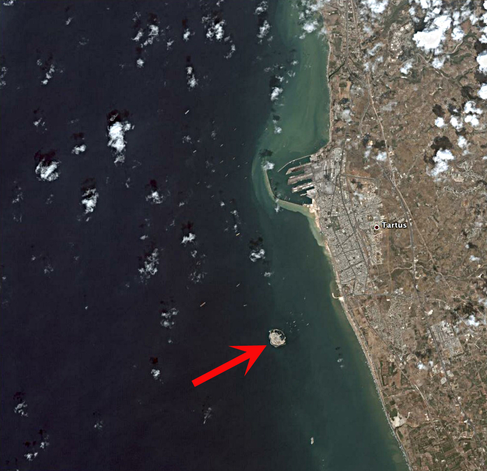 Island Ruad (former Arwad), Syria